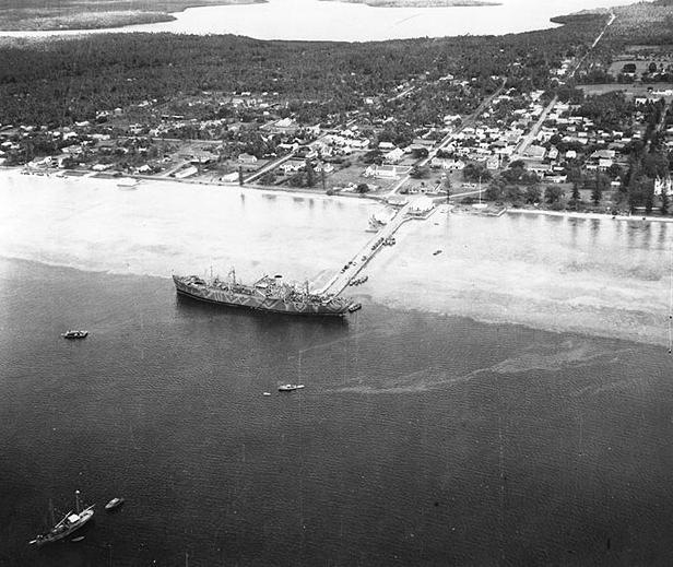 The U.S. Navy cargo ship USS Betelgeuse (AK-28) alongside the pier at Tongatabu, Tonga Islands, 8 June 1942. Note the complex pattern camouflage applied to this ship. On 1 February 1943 USS Betelgeuse was redesignated attack cargo ship AKA-11.